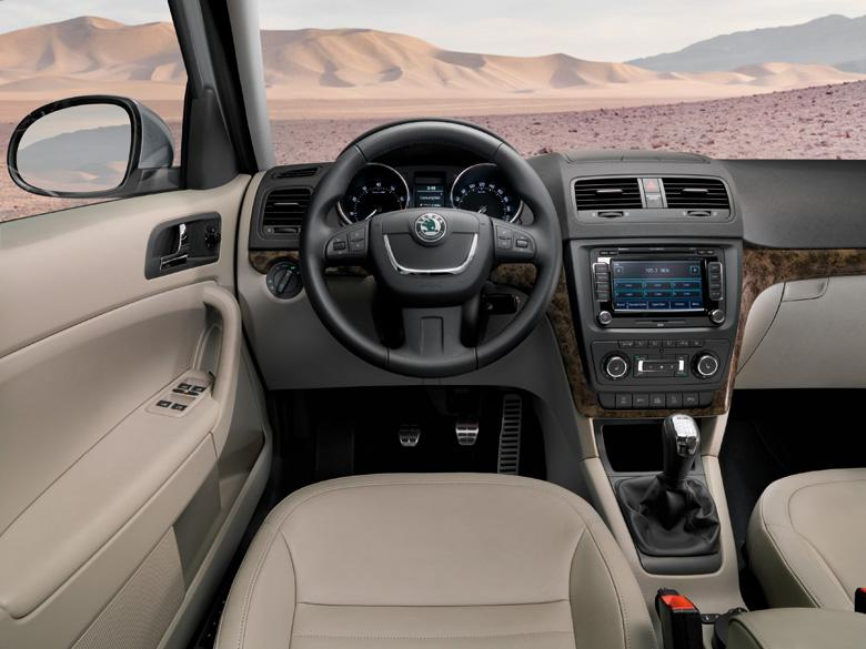 Skoda-Yeti-interior-front